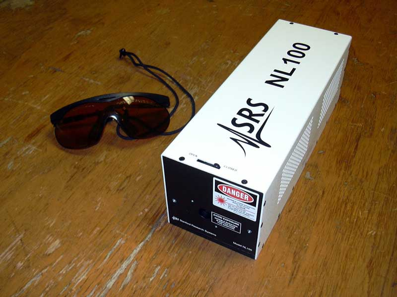 Nitrogen laser for MALDI TOF mass spectrometer